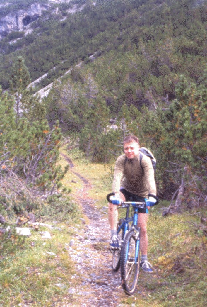 Offroad cyclist near the Swiss border between Val Müstair and Bormio (Italy)